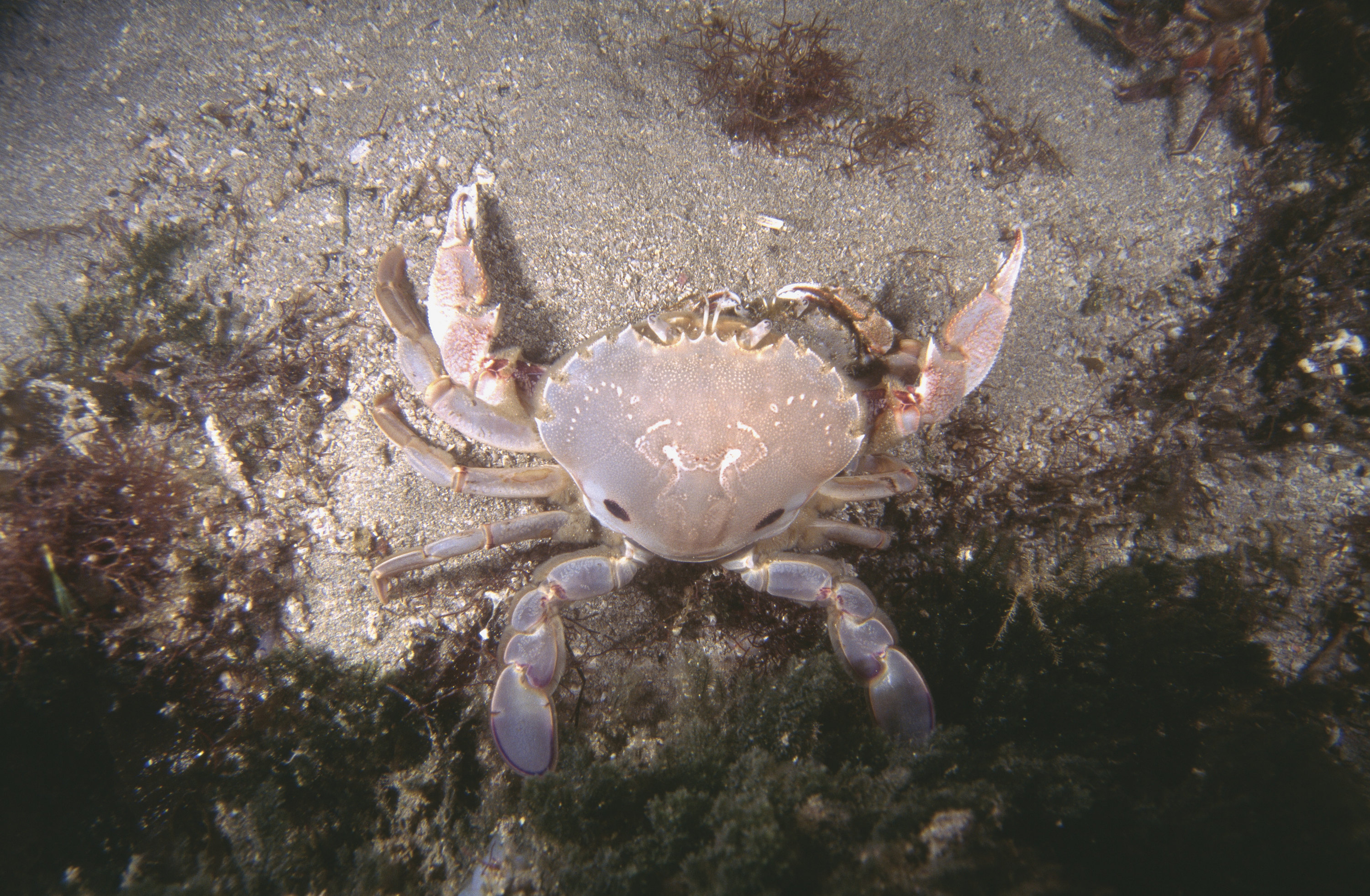 Sand Crab, Ovalipes australiensis.